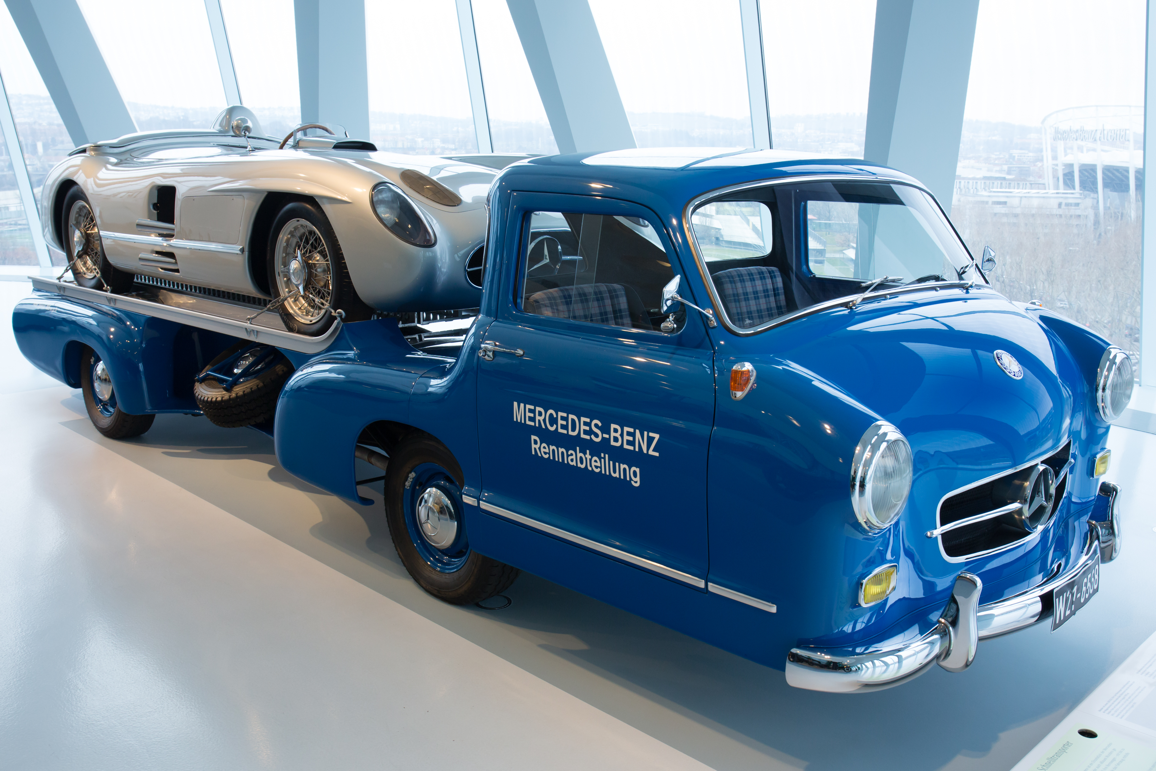 Replica 1955 Mercedes-Benz Rennwagen-Schnelltransporter "Blaues Wunder" (high-speed racing car transporter "Blue Wonder") and the 1955 Mercedes-Benz 300 SLR